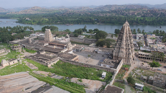 Virupaksha Temple in Hampi, India